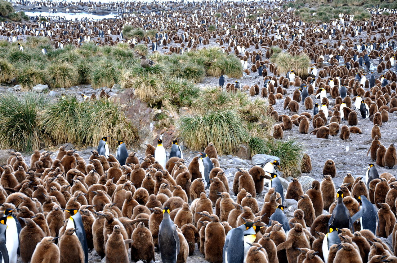 Rookery of King Penguin (Aptenodytes patagonicus) - South Georgia